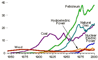 US energy consumption, by source, 1850-2000. Vertical scale is quadrillion BTUs.